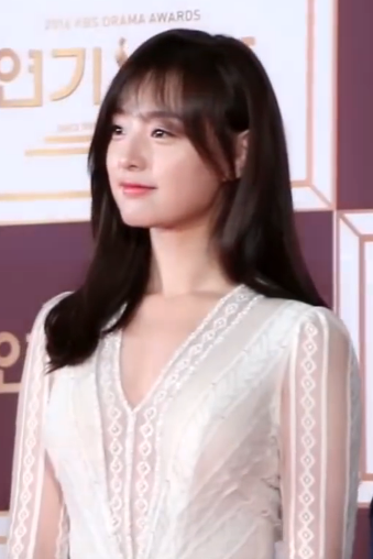 Kim Ji-won at KBS Drama Awards, December 2016